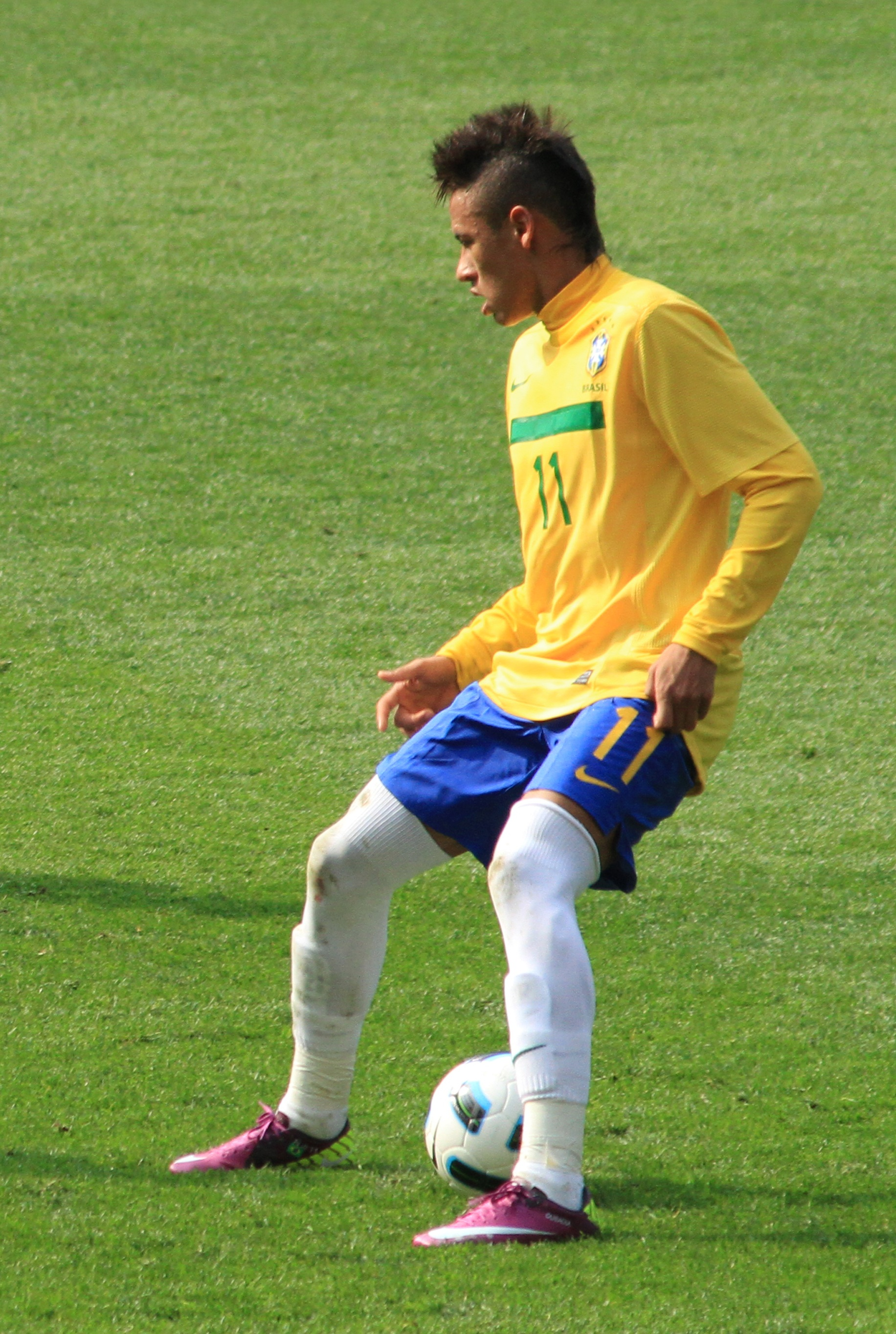 Football player Neymar